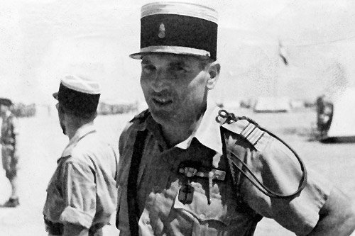 Dimitri Amilakhvari in the French Foreign Legion, 1942.